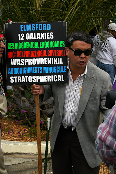 Frank Chu giving a TV interview while holding one of his trademark signs. I took this photo on 2006-04-23.